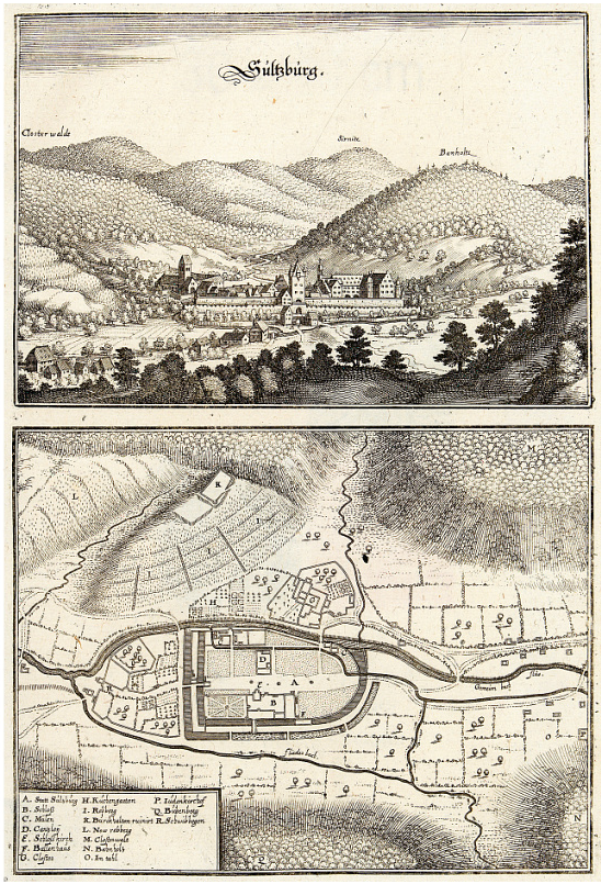 Matthäus Merian d. Ä., Sulzburg, 1643